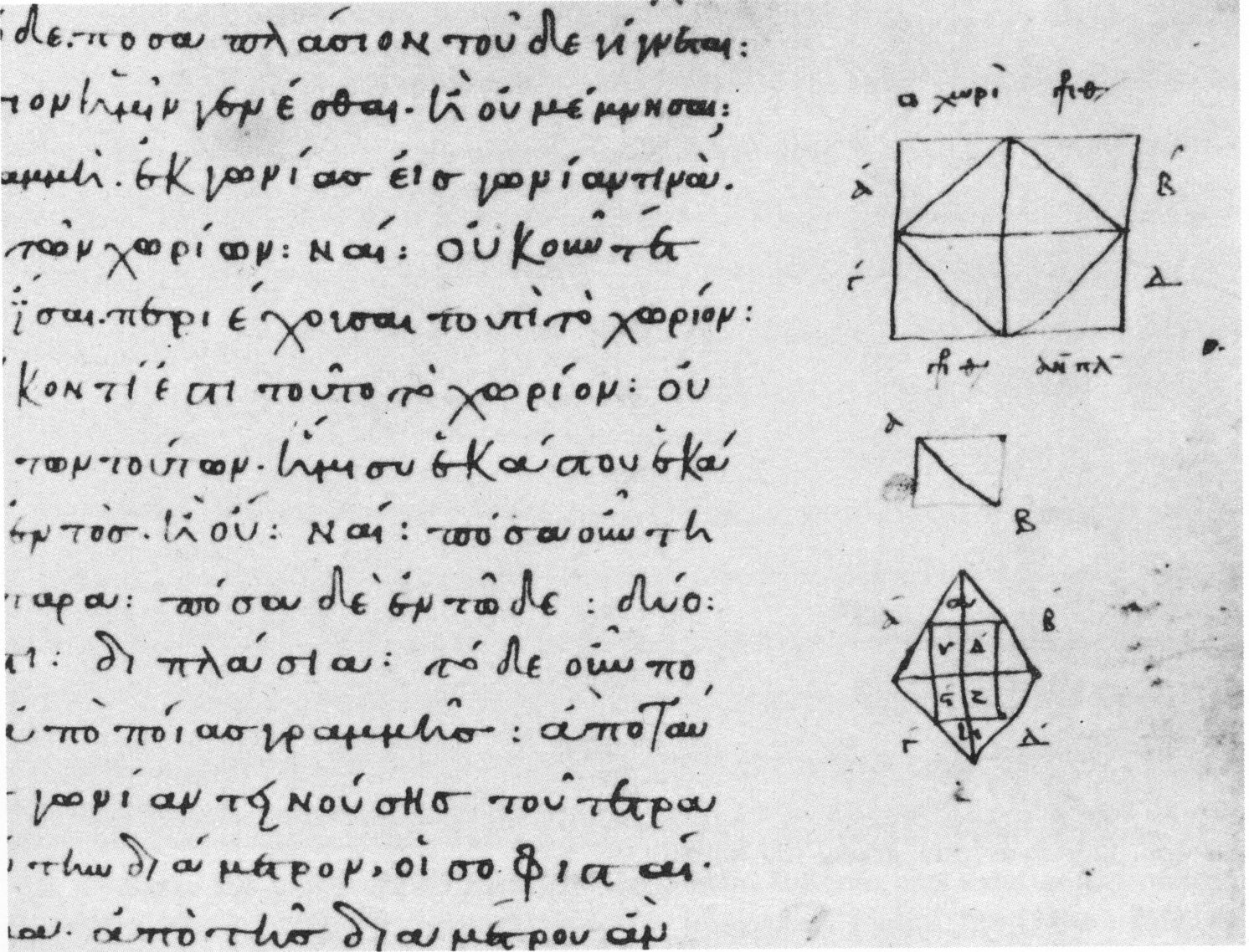 Design drawings showing the problem of doubling the square in the scholia on Plato’s Meno 82b sqq. in Vienna, Österreichische Nationalbibliothek, Suppl. graec. 7, fol. 418r.